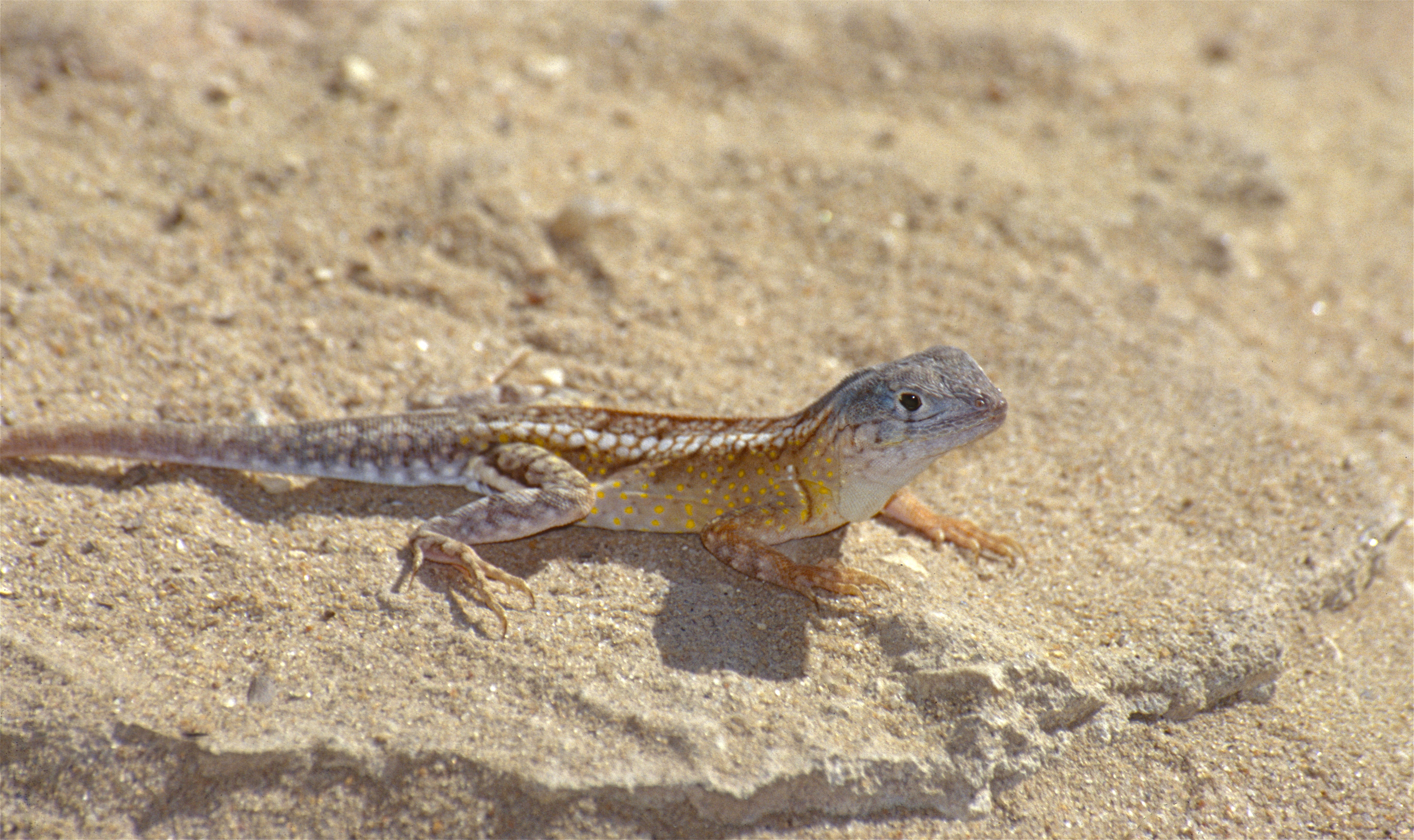 Morondava, MADAGASCAR Scanned Slide from 1998